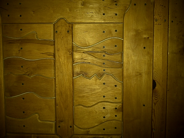 Door in a gîte in Landange showing the skyline of the Vosges and Donon mountain seen from Landange.